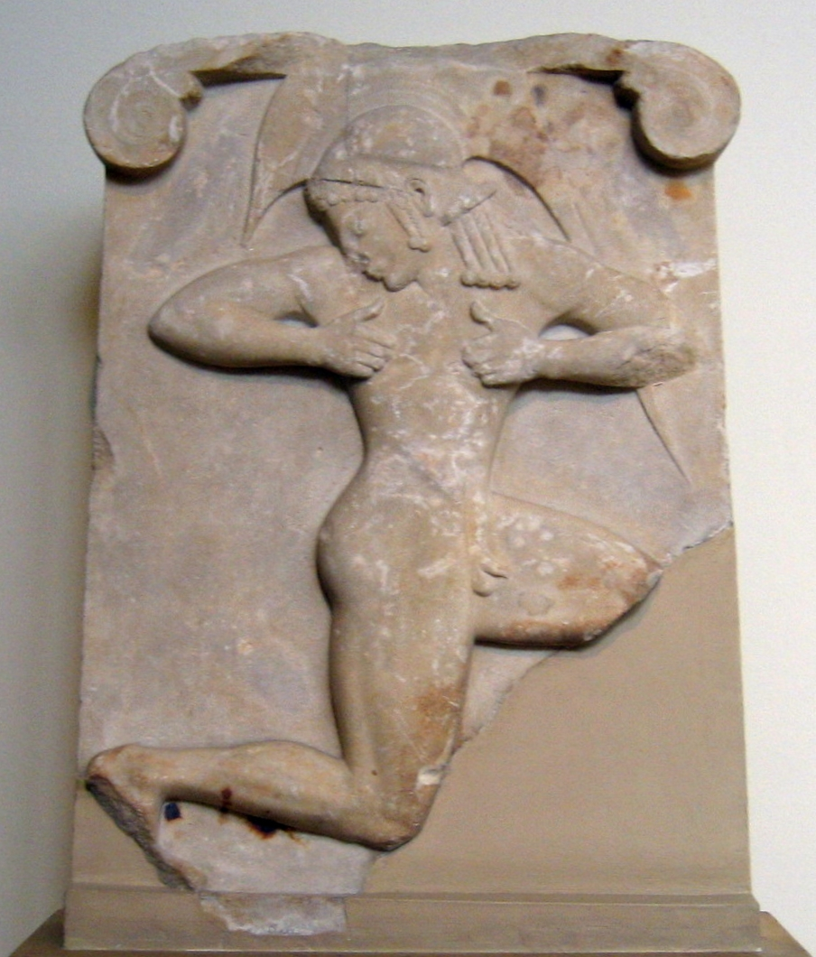 Parian marble. Found in Athens, near Theseion. About 500 BC.